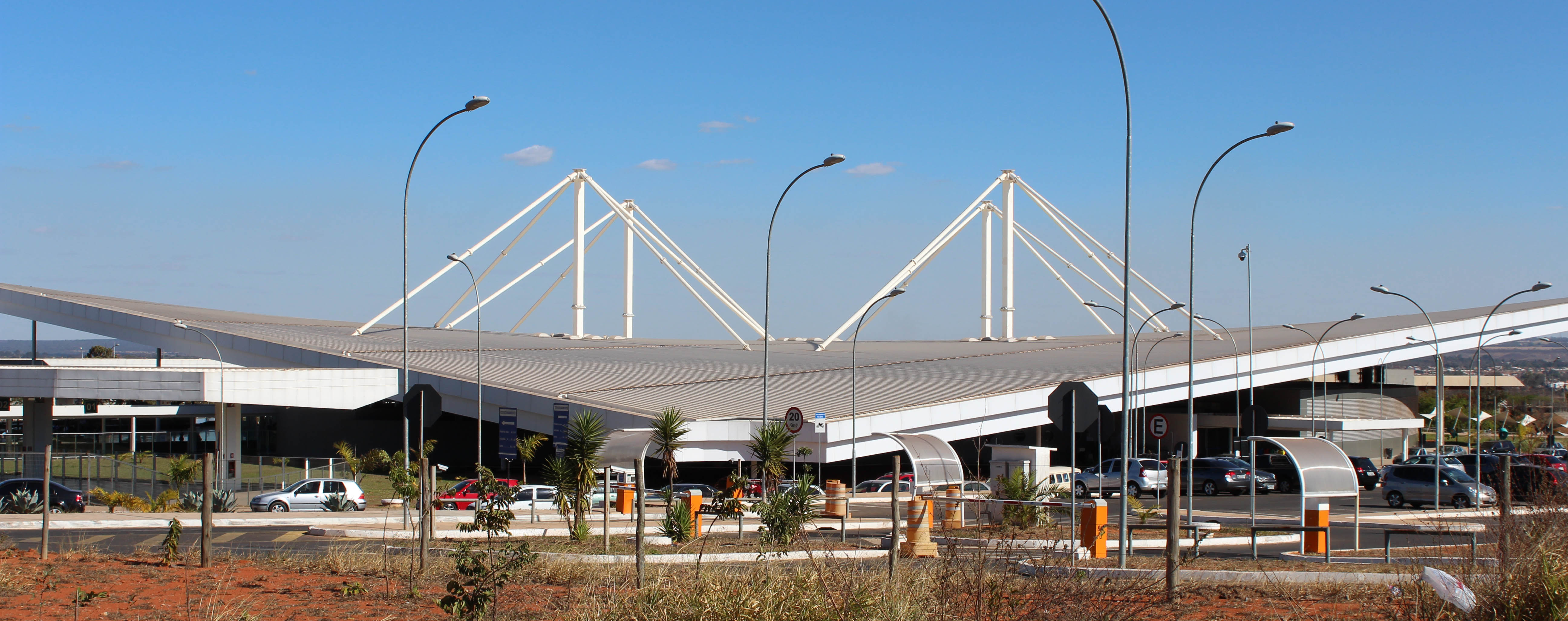 New long-distance bus station (Rodoviária Interestadual), Brasília